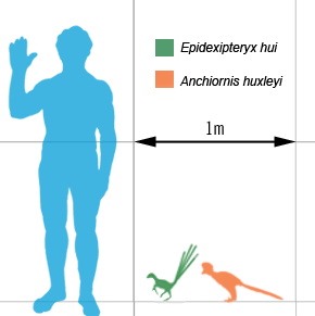 Size comparison of two small non-avian dinosaurs, Epidexipteryx hui (green) and Anchiornis huxleyi (orange) with human for scale. Anchiornis is scaled based on the largest described specimen, LPM-B00169. Epidexipteryx is scaled based on the type (and only) specimen, IVPP V15471. Total length of the tail feathers in both is speculative. Zhang, Zhou, Xu, Wang and Sullivan, 2008. A bizarre Jurassic maniraptoran from China with elongate ribbon-like feathers. Nature. 455, 1105-1108. Hu, Hou, Zhang and Xu, 2009. A pre-Archaeopteryx troodontid theropod from China with long feathers on the metatarsus. Nature. 461, 640-643.